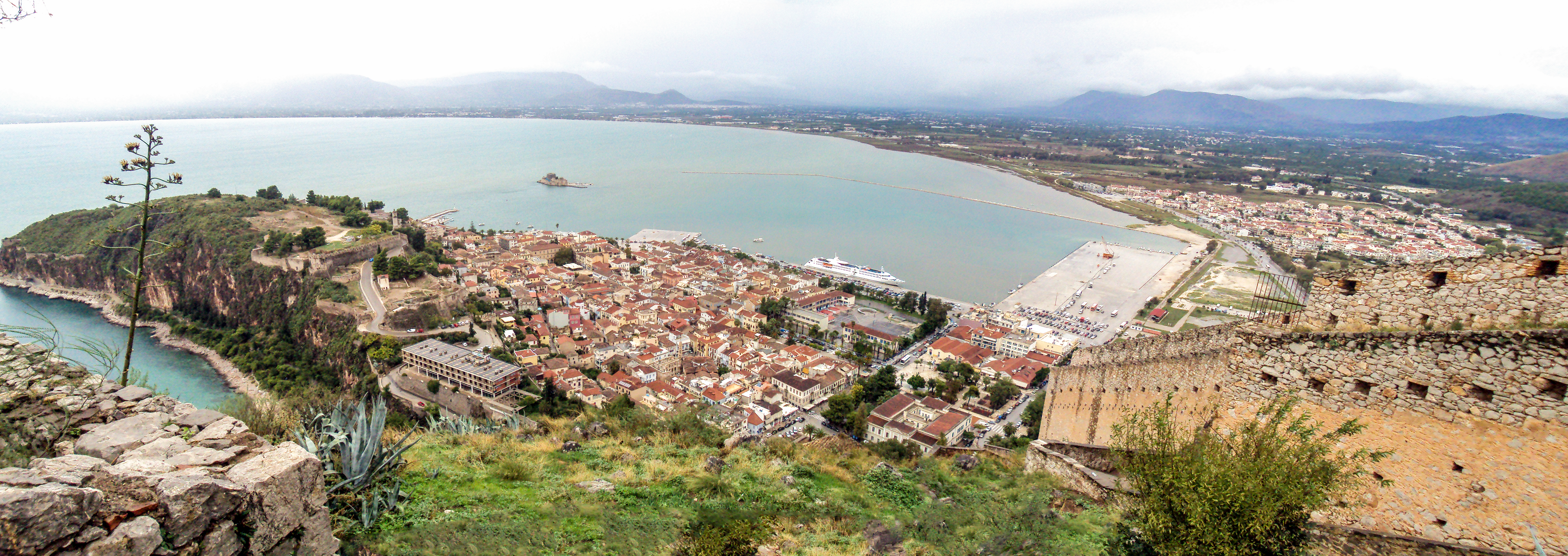 Nafplion